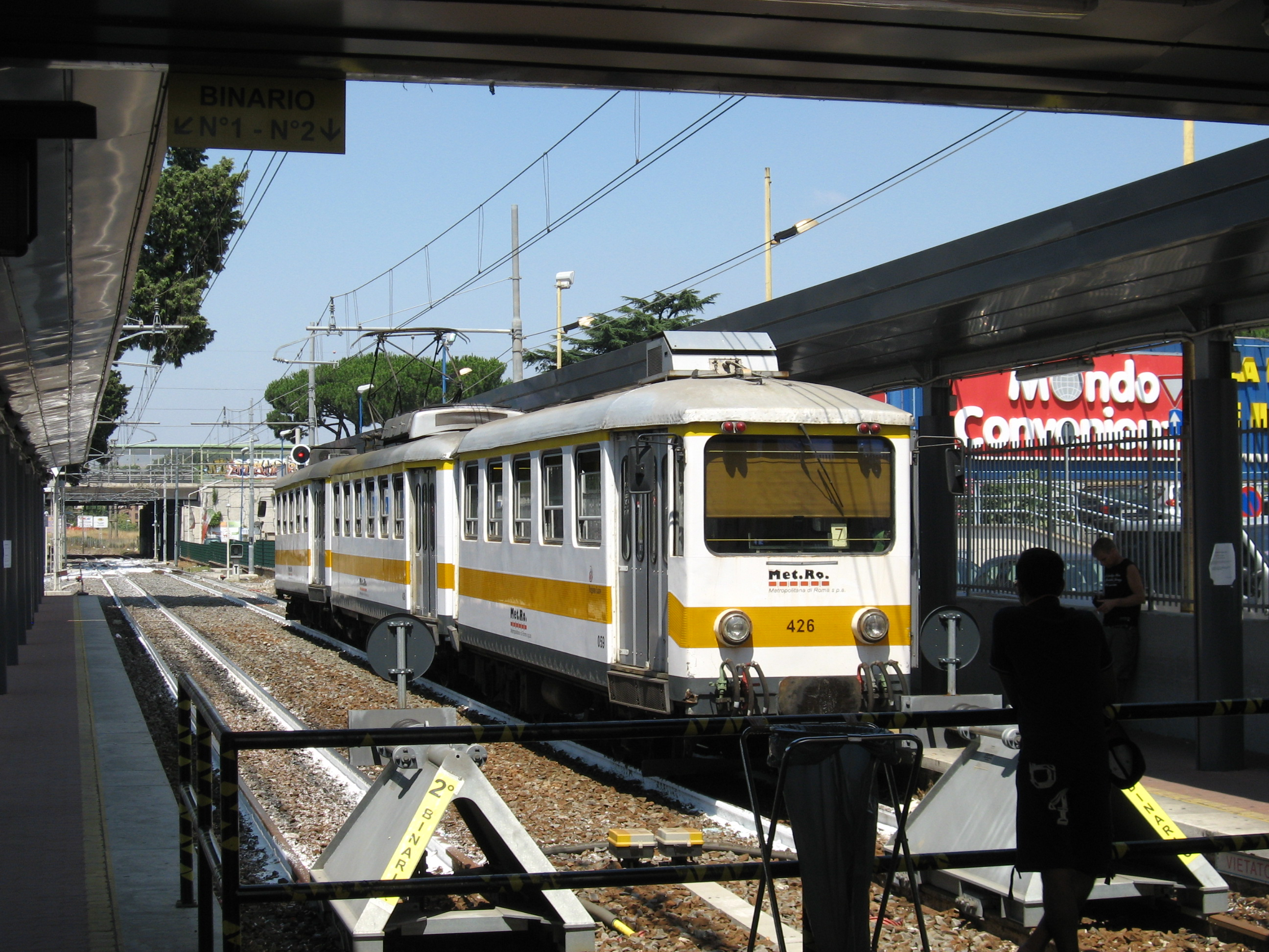 New endpoint of the Roma - Pantano line at Giardinetti